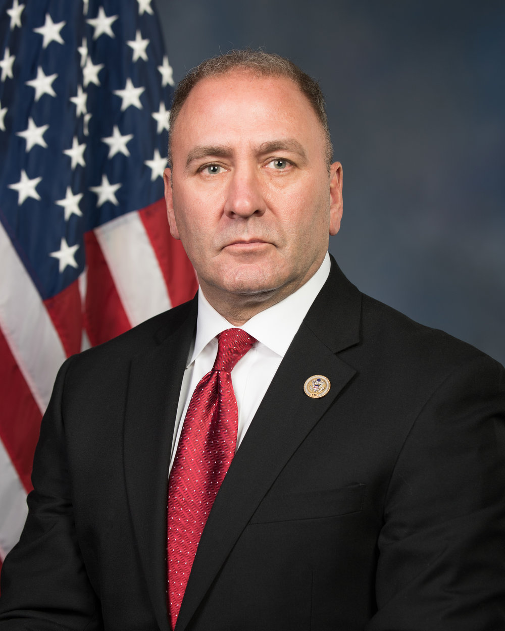 Official portrait of Representative Clay Higgins, Louisiana